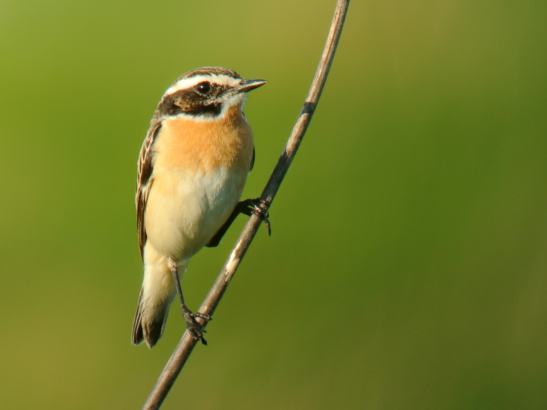 Braunkehlchen (Saxicola rubetra) at Warchetal bei Hünningen, Ostbelgien. Photograph taken by digiscoping with Swarovski ATM 80 HD 30 X, Nikon 1V1 + 10-30 mm lens (Adapter DCB)